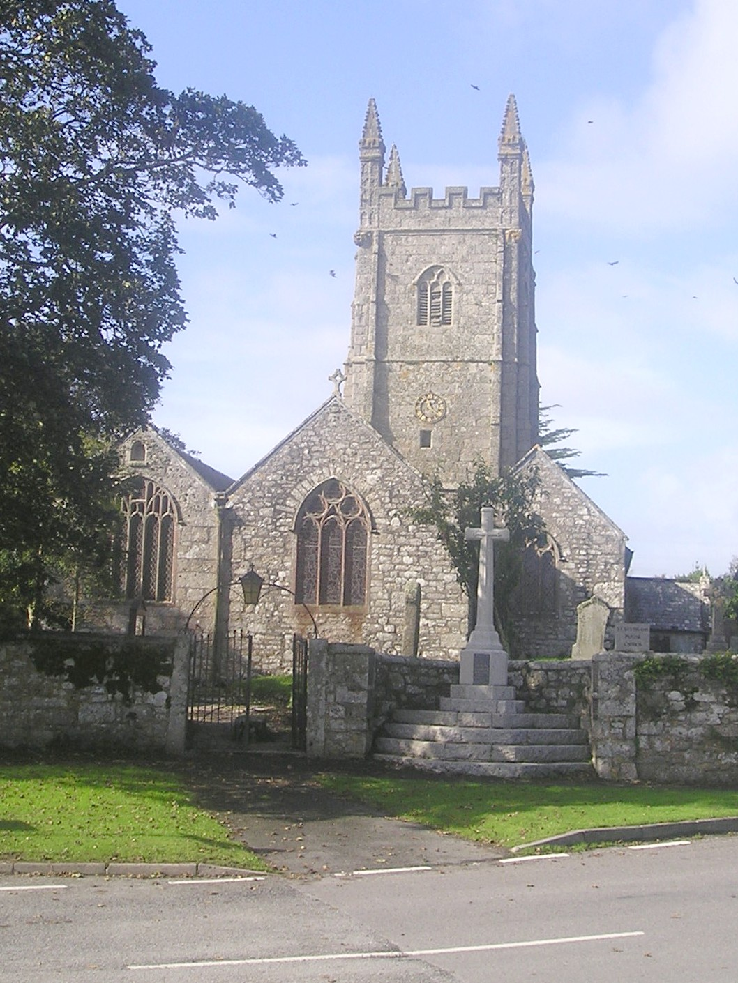 Stithians Church. Photograph taken by David Dunstan on 1 October 2006.